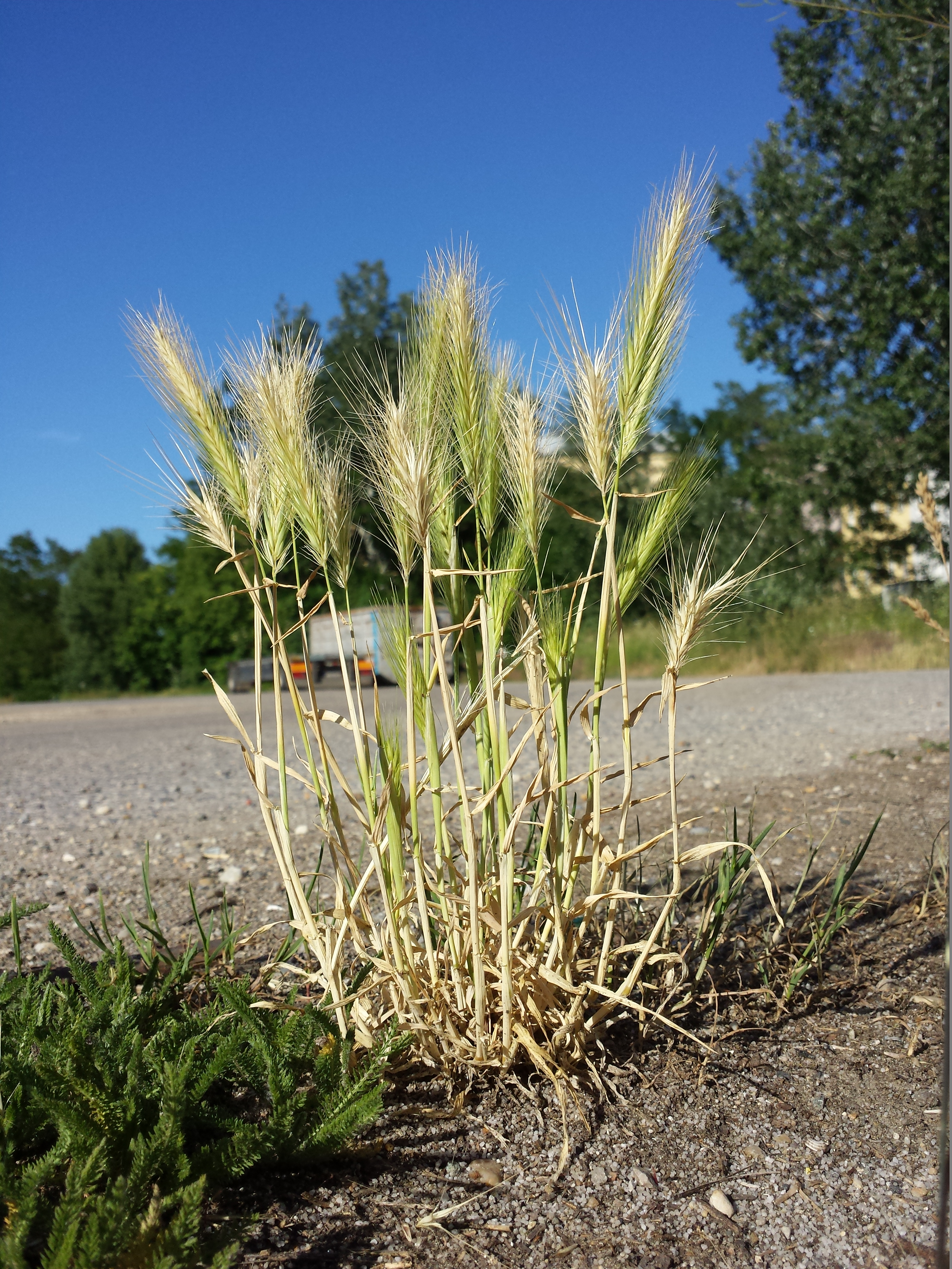 Habitus Taxonym: Hordeum murinum subsp. murinum ss Fischer et al. EfÖLS 2008 ISBN 978-3-85474-187-9 Location: Floridsdorf rail station, Vienna-Floridsdorf - ca. 160 m a.s.l. Habitat: ruderal area